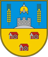 Coats of arms of Bilopilskij district (Ukraine)